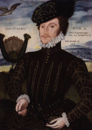 Sir Thomas Coningsby (1551-1625)